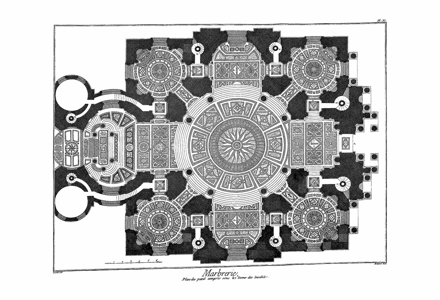 Planches de l'Encyclopédie de Diderot et d'Alembert, volume 4, Marbrerie, Pl. 11.